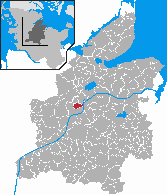 Locator maps of municipalities in Schleswig-Holstein - District Rendsburg-Eckernförde